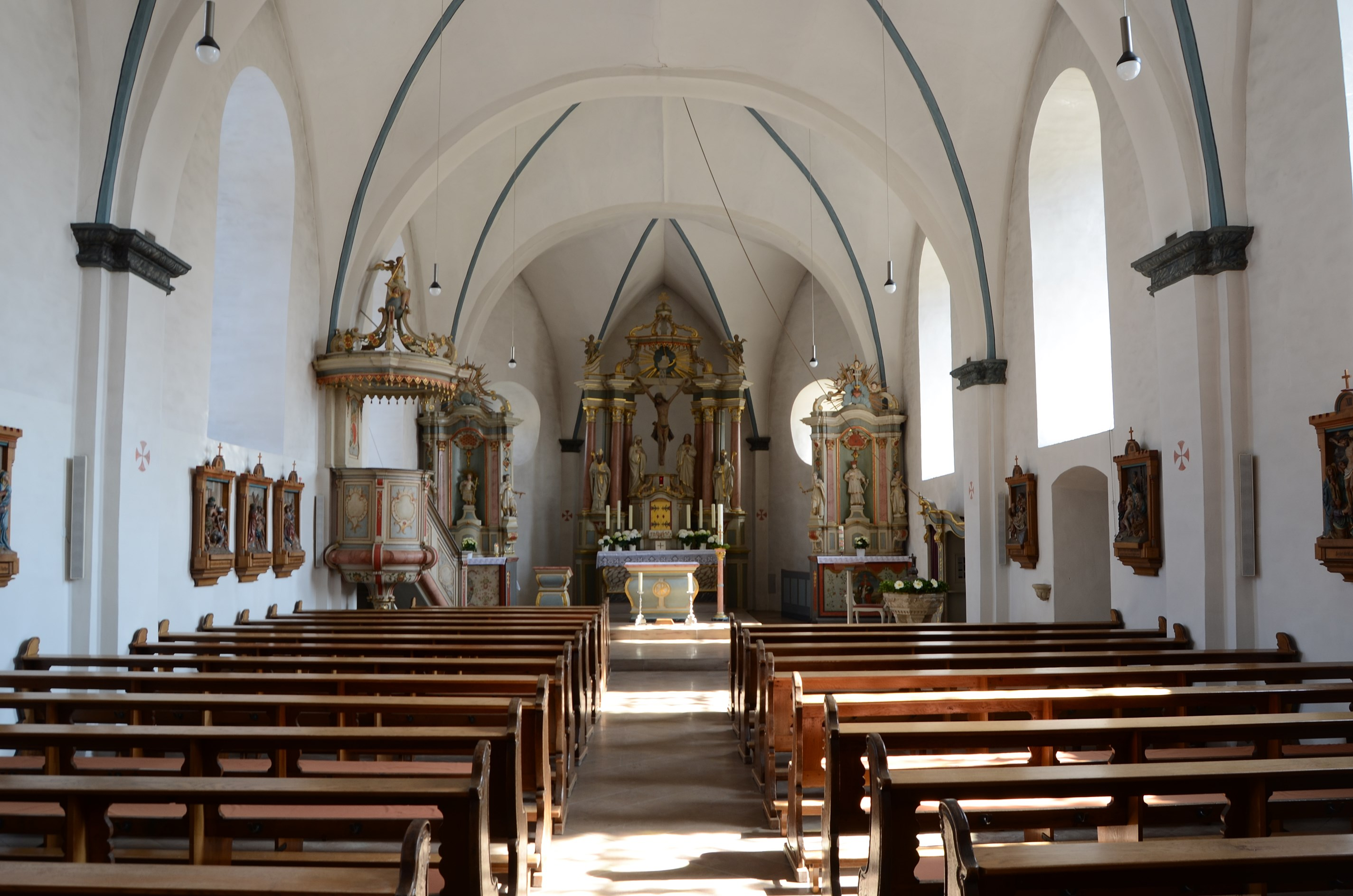 Olsberg (North Rhine-Westphalia, Germany) – district Brunskappel – Catholic Saint Servatius Church – interior This image shows a heritage building in Germany, located in the North Rhine-Westphalian city Olsberg (no. 40). This photograph was taken with a Nikon D7000